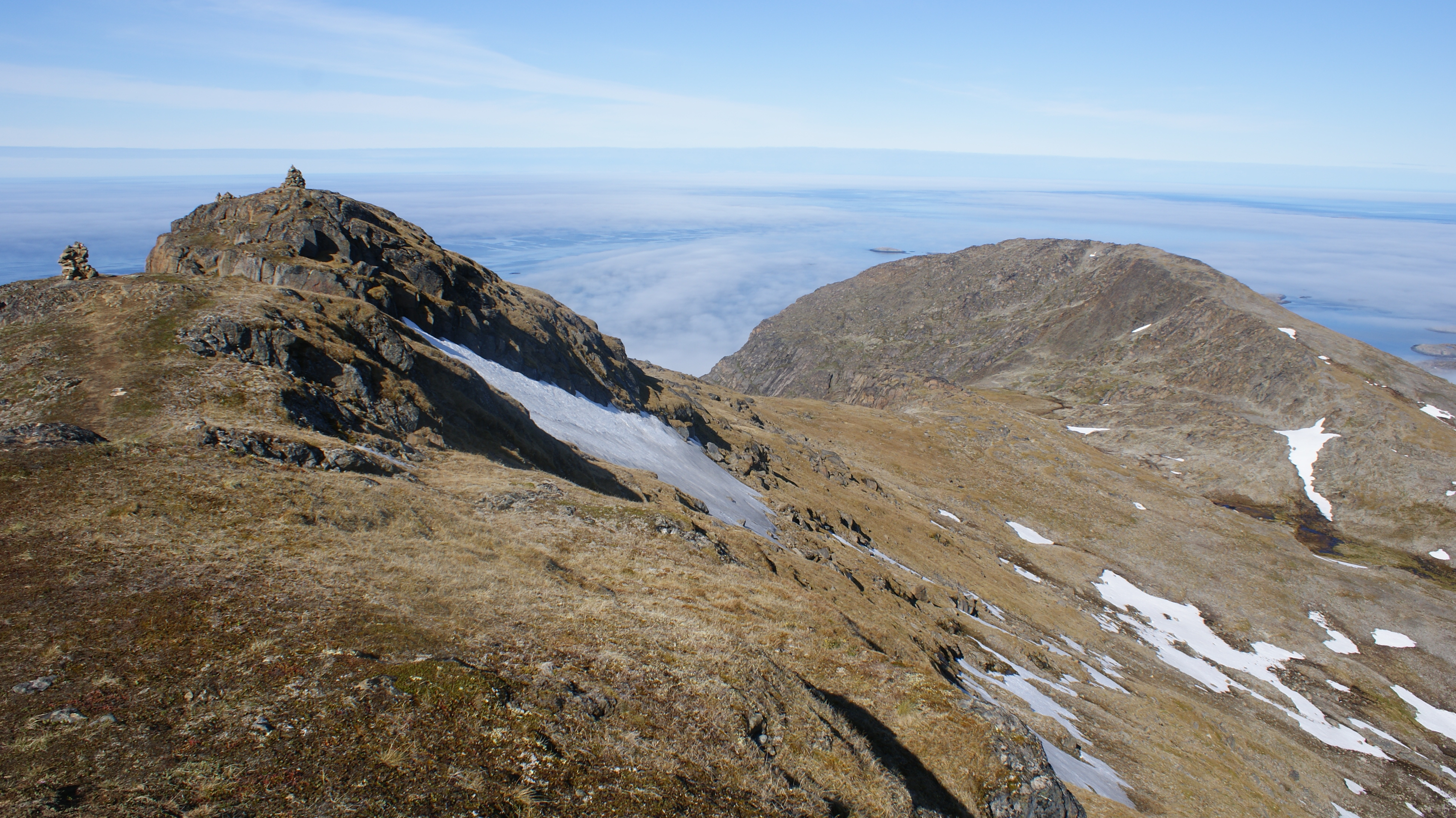 Palasip Qaqqaa, a mountain in the Qeqqata municipality in western Greenland, near Sisimiut. Western summit (466m) seen from the main summit (544m).